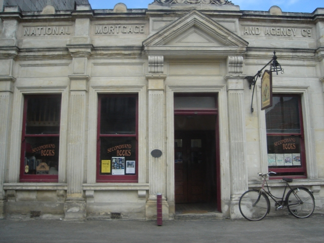 Darling McDavell Limited building